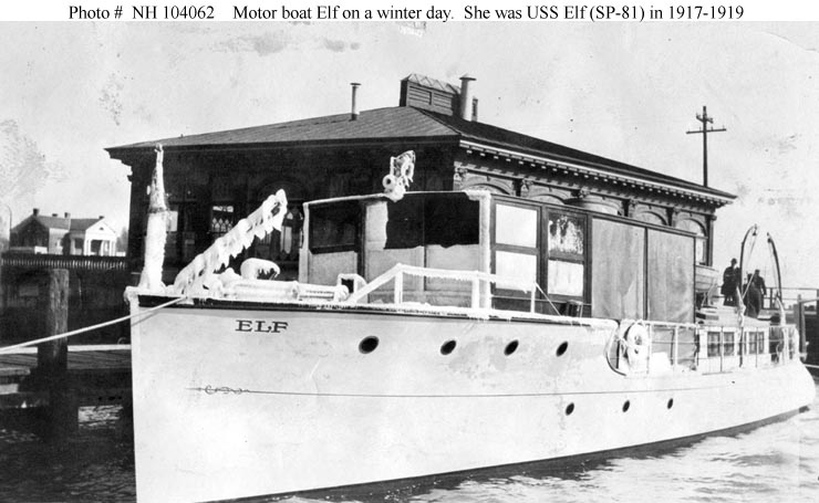 Motorboat Elf on a winter day just after completion, prior to her service as United States Navy patrol boat USS Elf (SP-81)